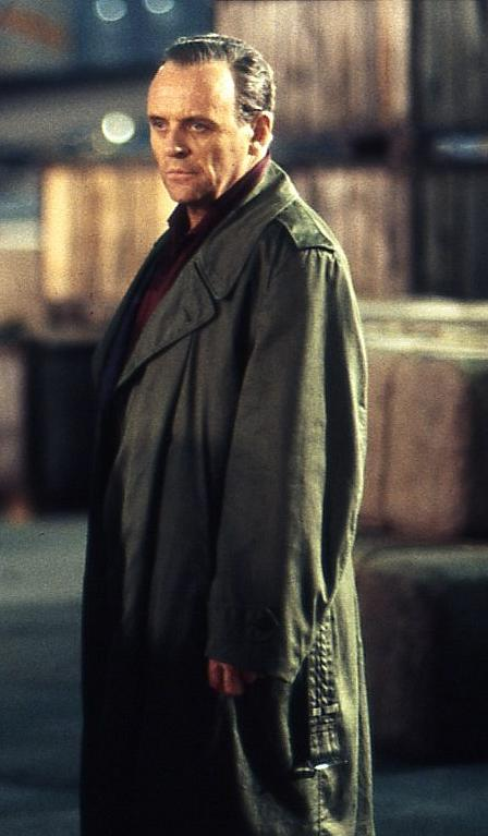 Anthony Hopkins on location at Tempelhof Airport in Berlin to shoot some scenes for the movie "The Innocent"